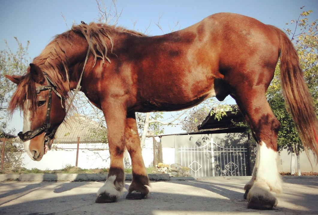 Soviet heavy draft Suygak. Sevastopol zoo.